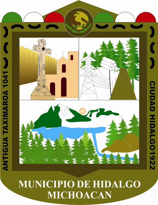 Es el escudo de el municipio